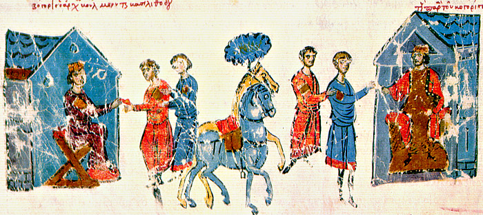 embassy of Boris I (Bulgaria) to Theodora (9th century)